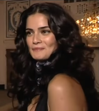 Iranian and German beauty pageant winner and model Shermine Shahrivar at the Bambi Awards.